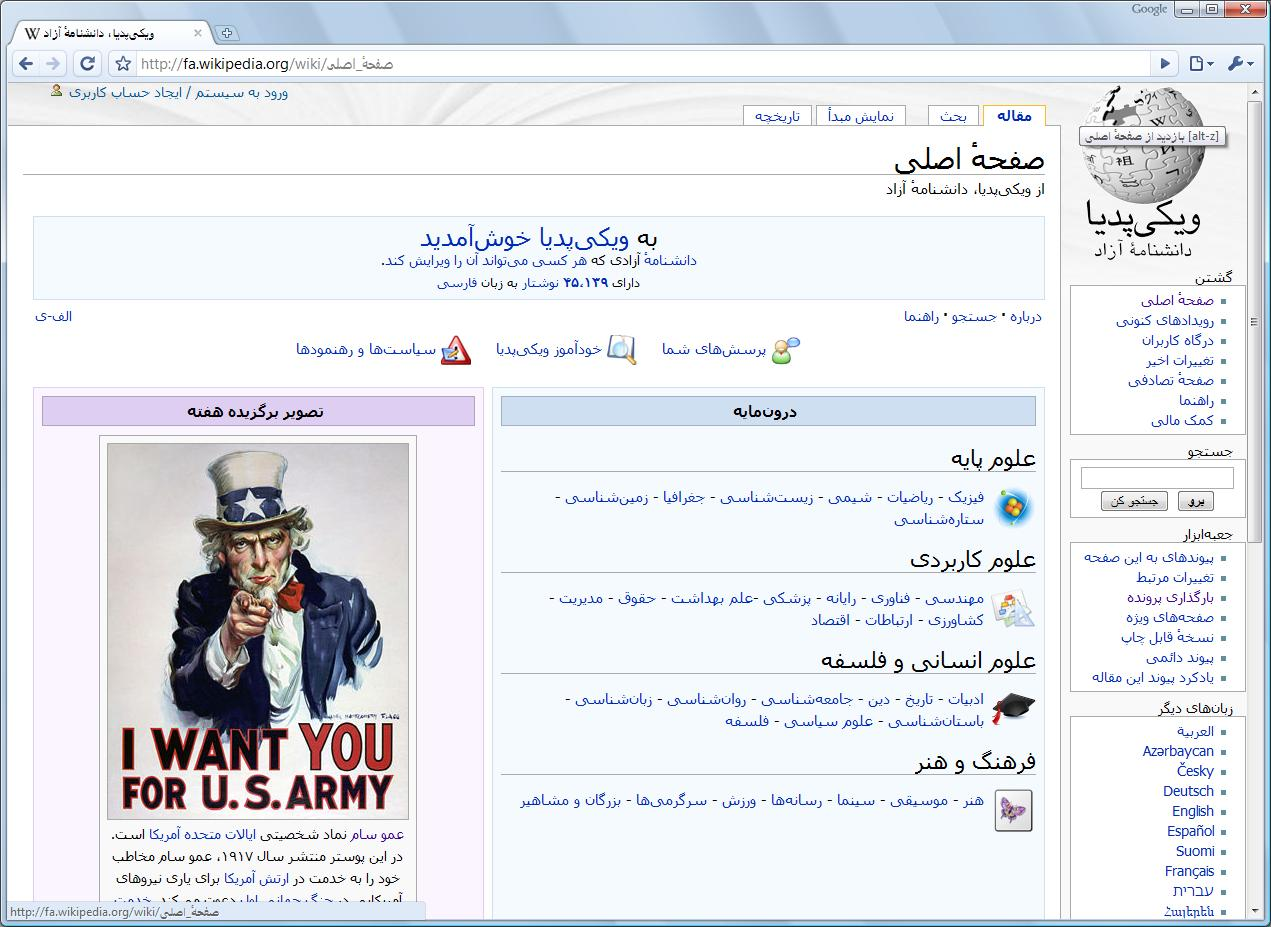 Screenshot of Google Chrome browser running on Windows Vista showing the fa.wikipedia main page